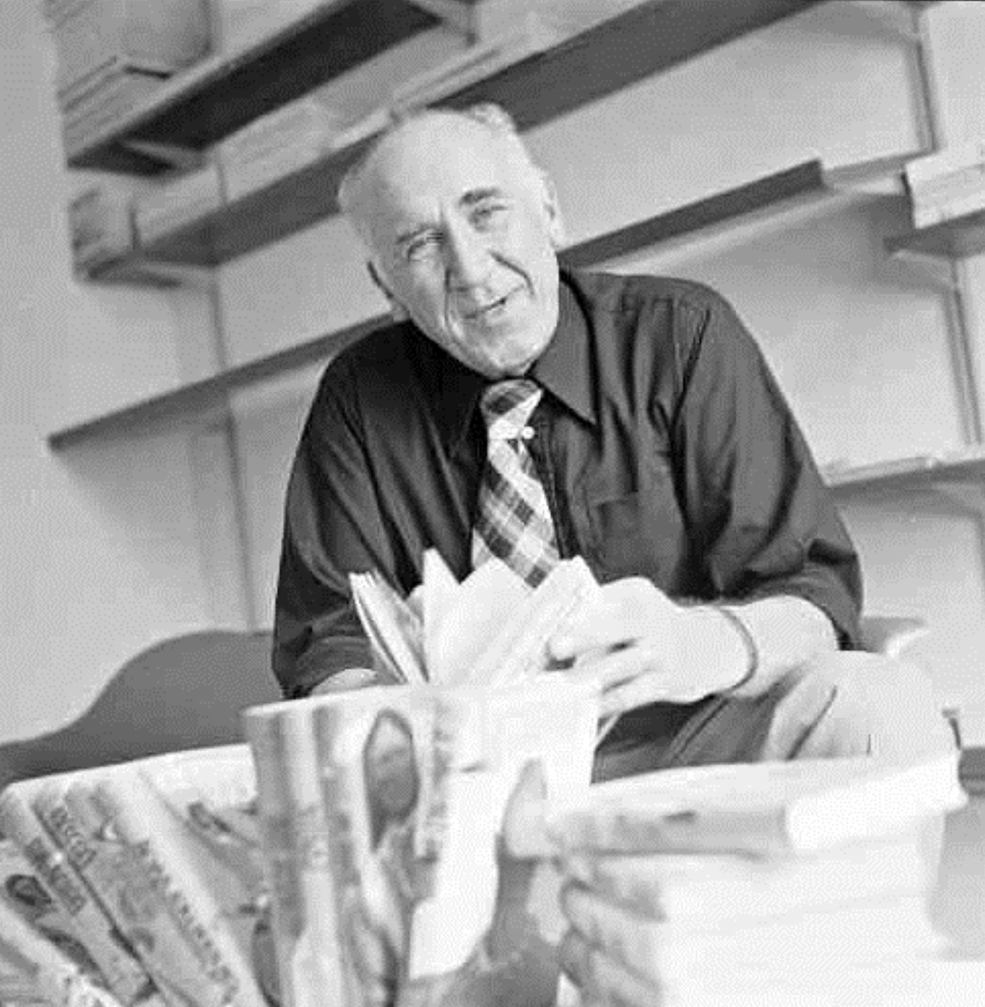 Ernie Hearting (pseudonym of the Swiss writer Ernst Herzig), 11 July 1975 in Basel, Switzerland